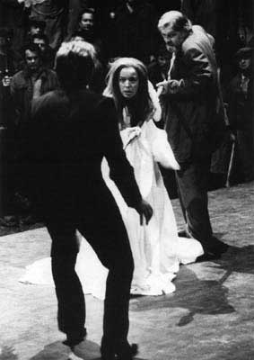 The leading soprano, Dame Gwyneth Jones as Brünnhilde in rehearsal of Götterdämmerung, one of "Der Ring des Nibelungen" for Bayreuth Festival in 1976, Bayreuth, Germany. It was directed by Patrice Chéreau and conducted by Pierre Boulez.